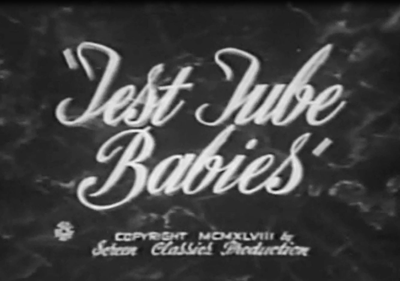 Title card for the American exploitation film Test Tube Babies (1948), an exploitation film with a plot involving the use of artificial insemination. The film is now in the public domain.